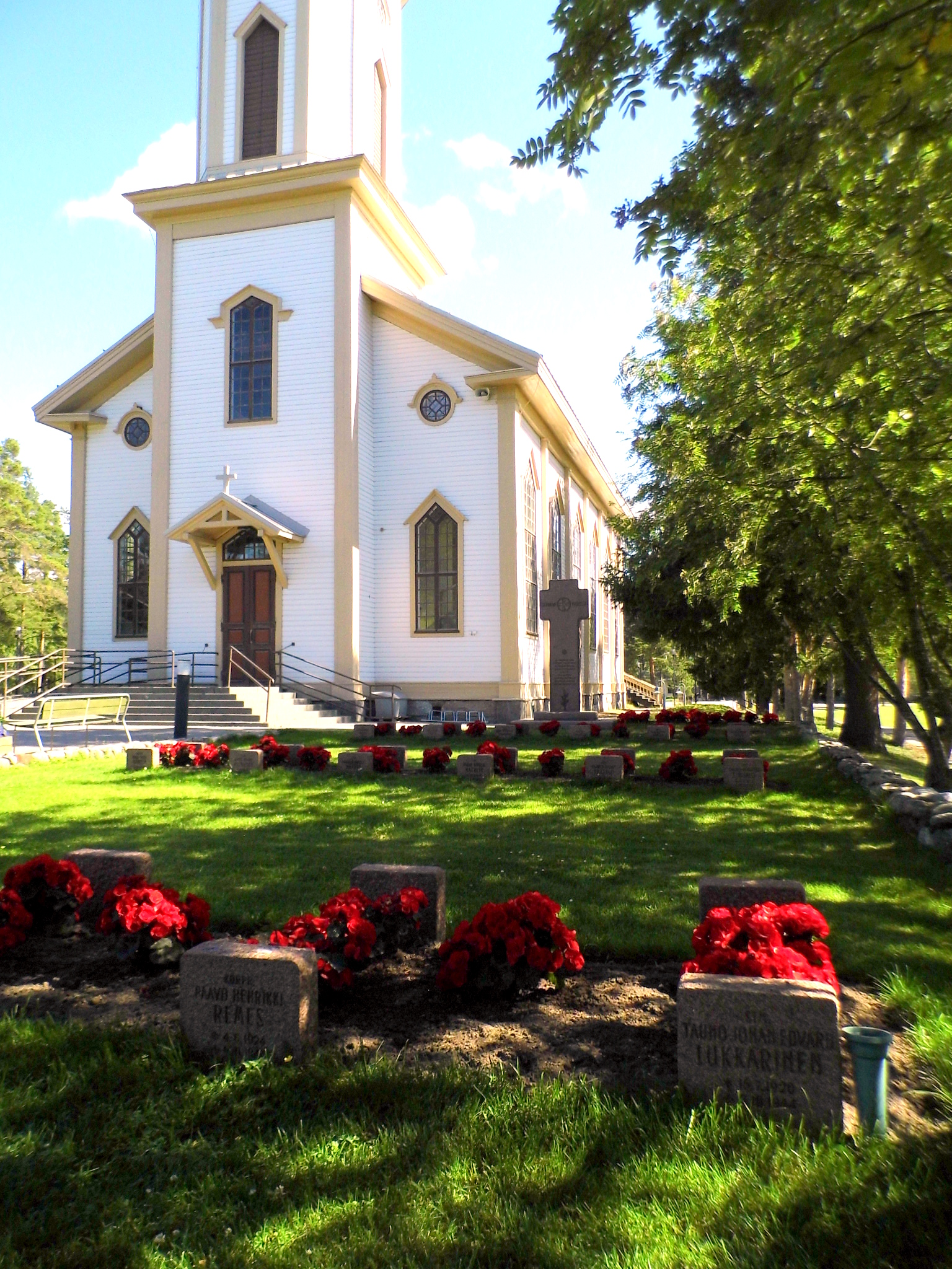 Military cemetary at church in Oulunsalo, Oulu, Finland